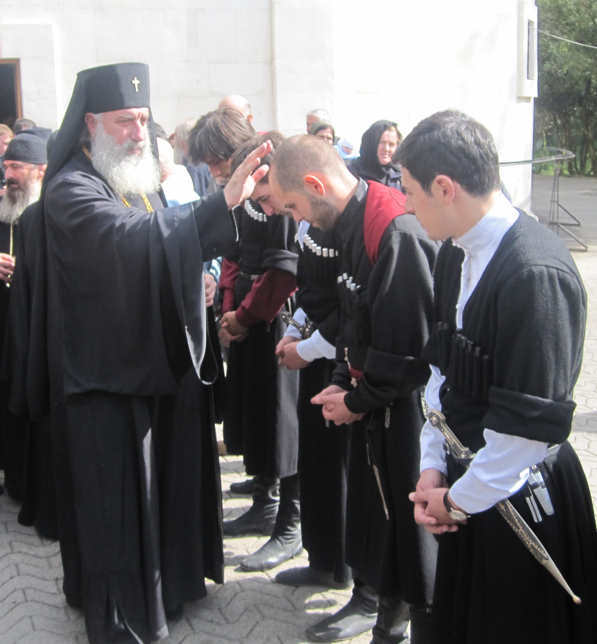 Cotne dadianis darbazi